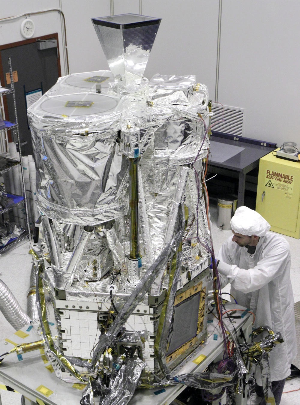 The integrated NuSTAR observatory, including the instrument and spacecraft, at Orbital Sciences Corporation (OSC) in Dulles, Virginia on June 29, 2011. The observatory is being prepared for environmental testing, including testing in a thermal vacuum chamber and vibration testing.